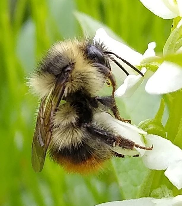 A frigid bumblebee on a tall white bog orchid, recorded on road to Long Point, near Chisasibi, Quebec.